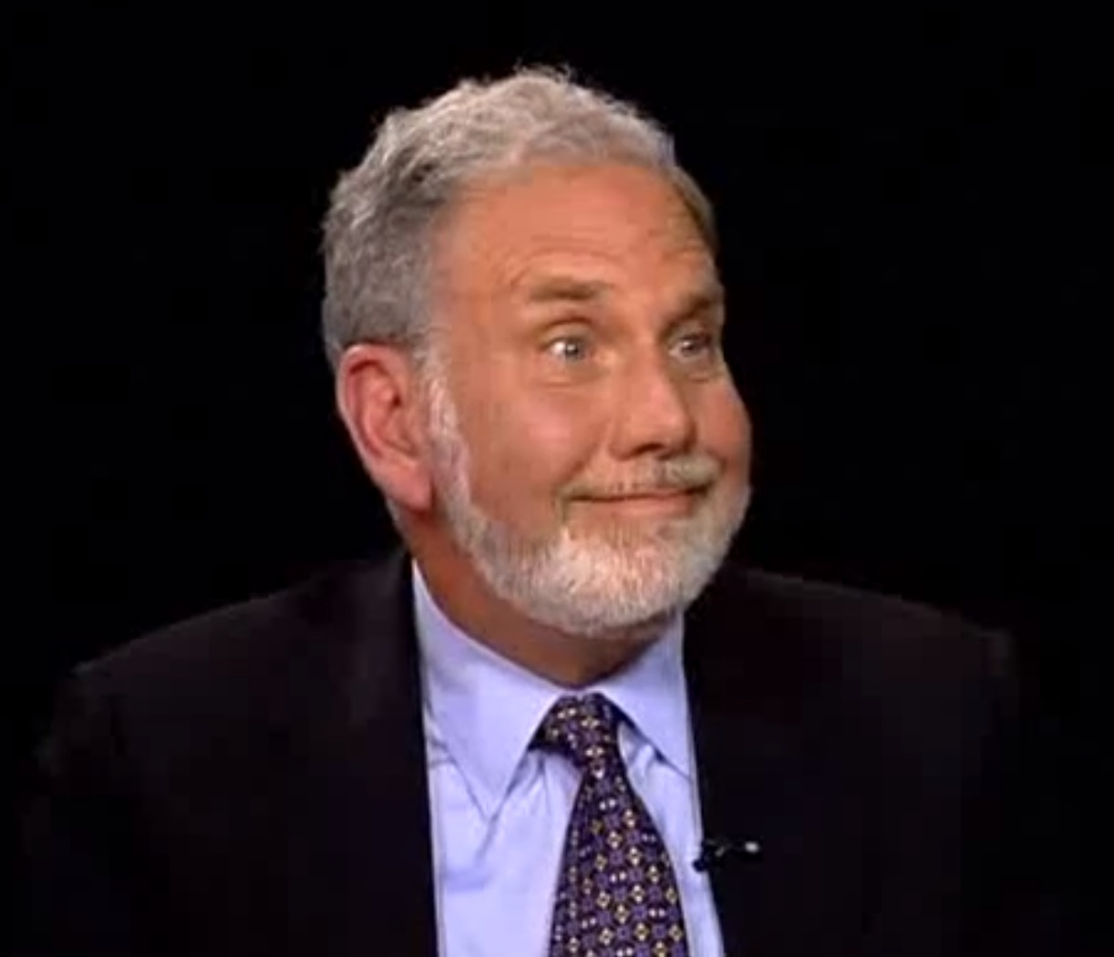 John Sexton, president of New York University speaks on NYU Local, university blog, in 2010, about NYU becoming a top 5 university within 10 years.